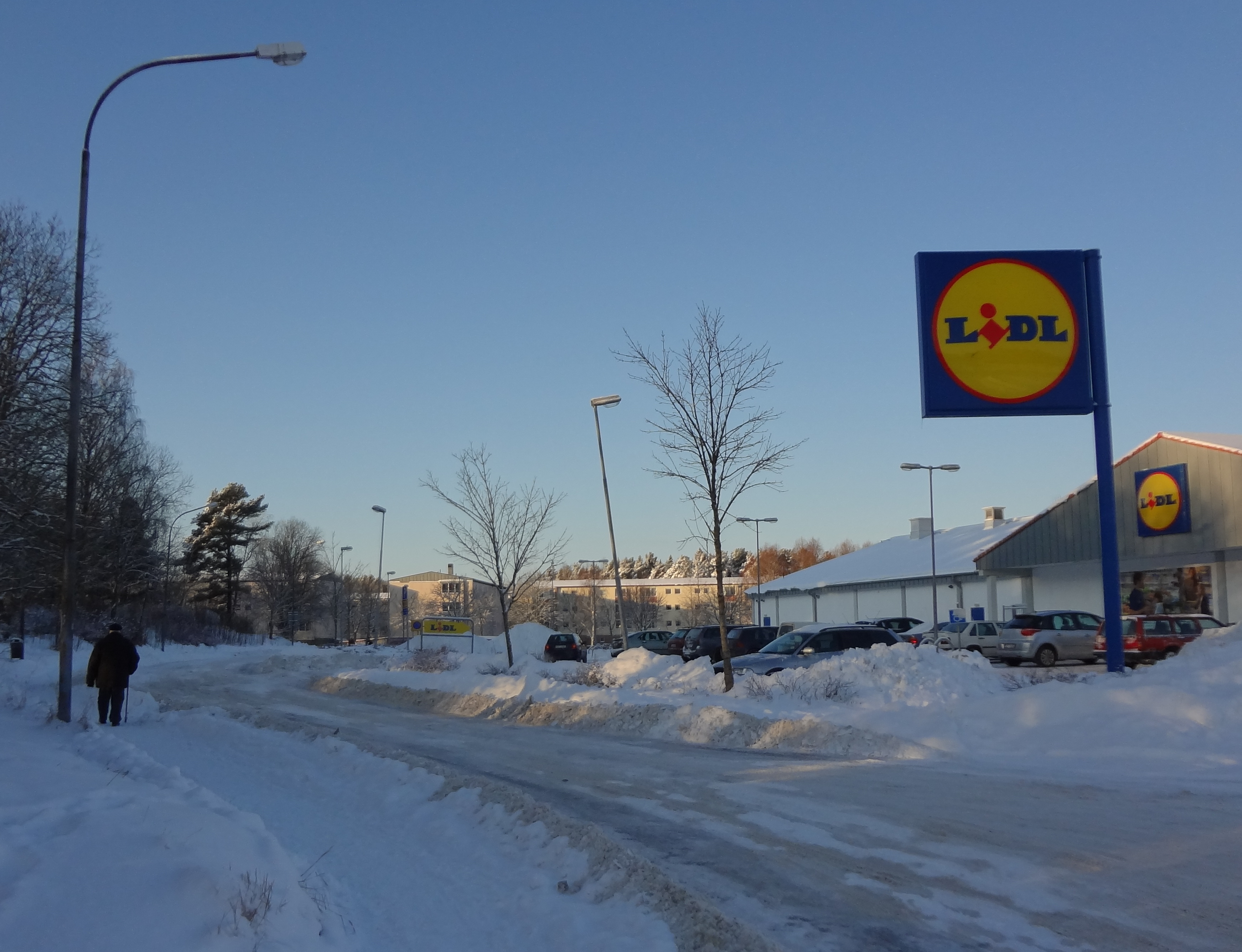 Råbergstorp, part of Eskilstuna